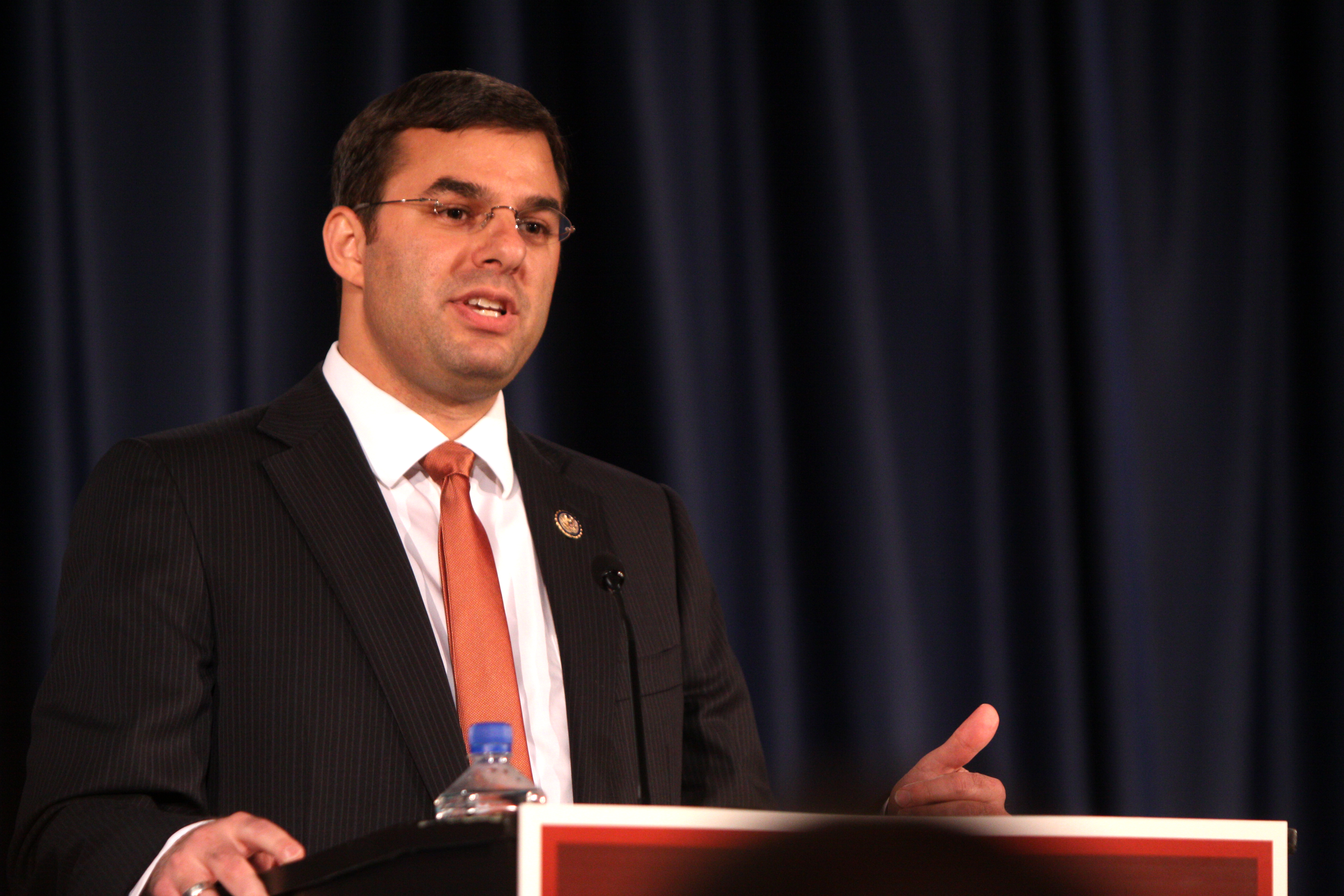 Congressman Justin Amash of Michigan speaking at the 2012 Liberty Political Action Conference in Chantilly, Virginia.